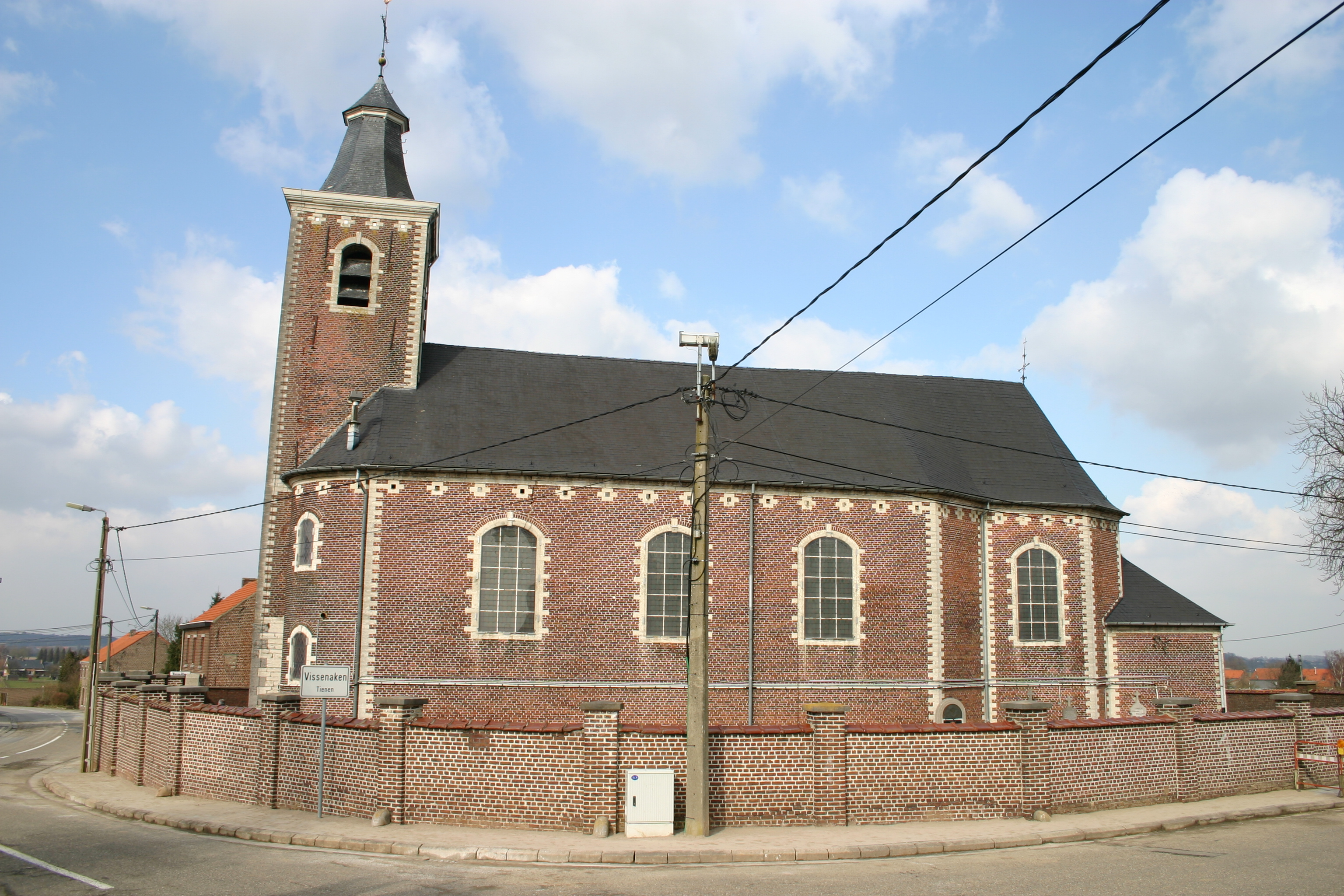 Church of Saint Pieter in Vissenaken (Tienen, Belgium)